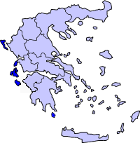 Map of Greece with Eptanisa marked in blue. This version should be used for articles about the Ionian Islands, since it contains Kythera in the highlighted areas. Articles about the Ionian Periphery should use File:GreeceIonianIslands.png, where Kythera is not highlighted, as it belongs to Piraeus Periphery.